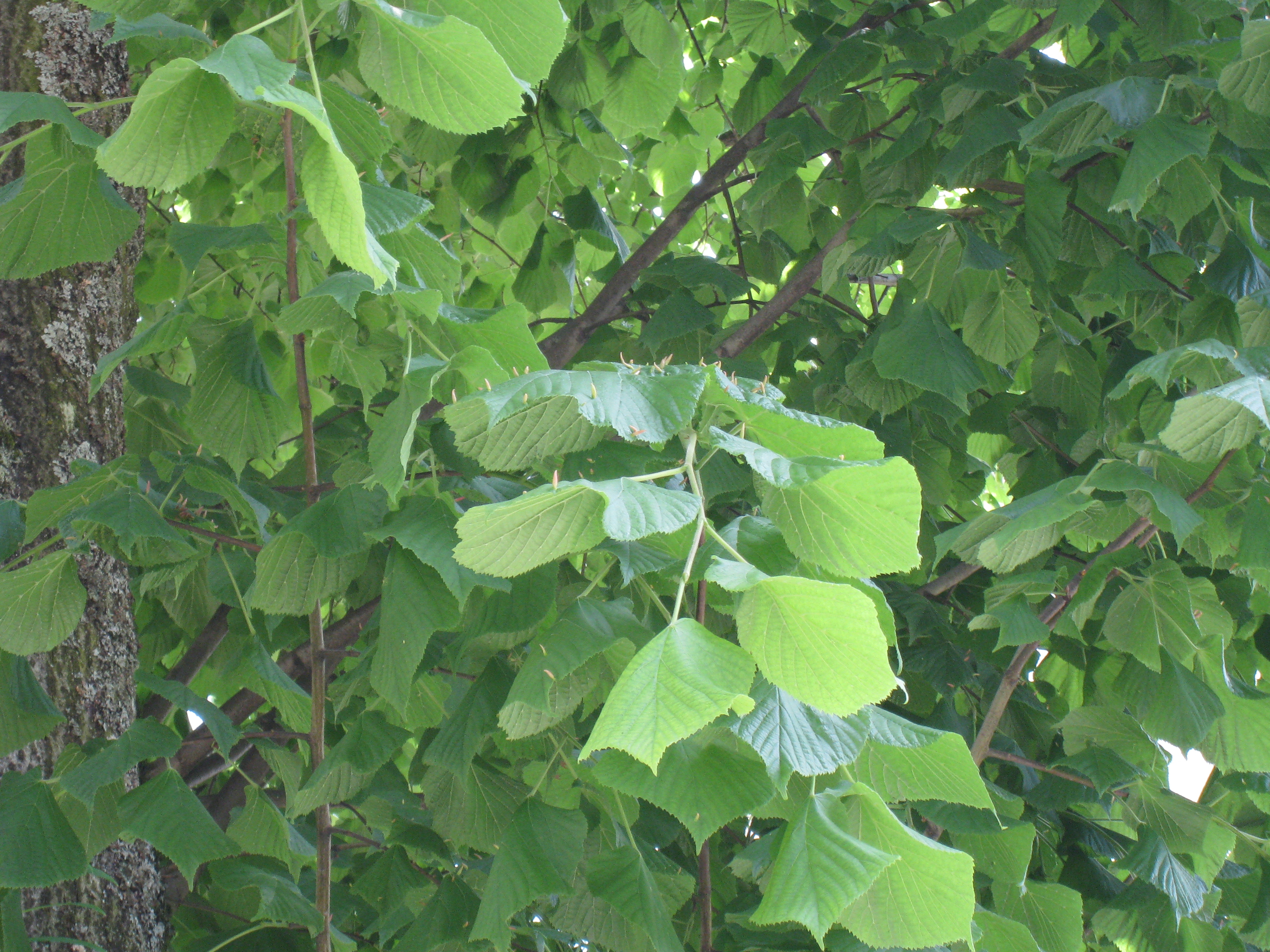 Tilia Americana, called Basswood or Lime, on Nicola east side south of Burnaby St. You can tell it's Tilia by the Lime Gall Mites (Eriophyid mite Eriophyes tiliae, those red things sticking up on the leaves, or actually, I think the red things are galls caused by the mites), which are associated with this one type of tree.